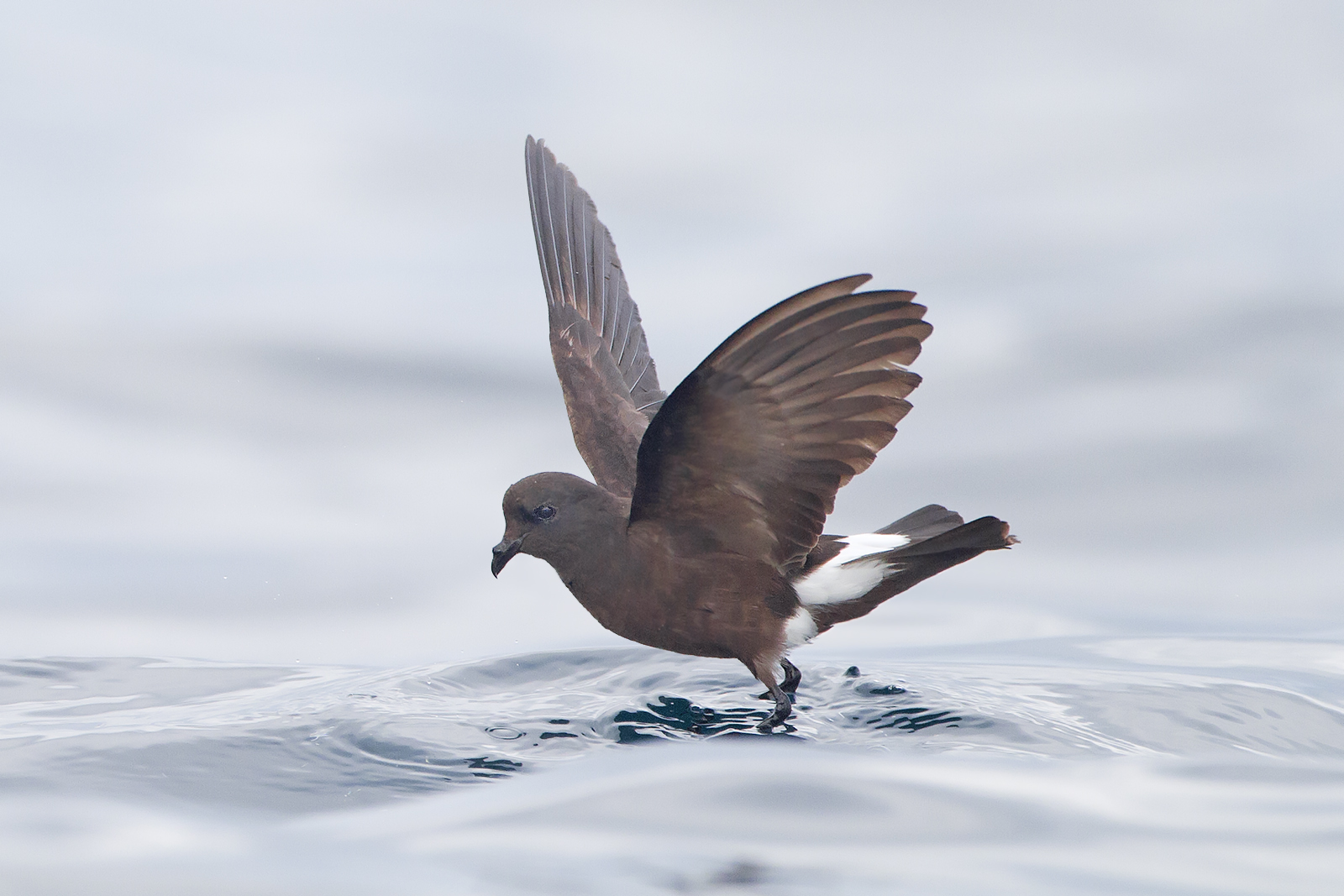 Wilson's Storm Petrel (Oceanites oceanicus), East of the Tasman Peninsula, Tasmania, Australia